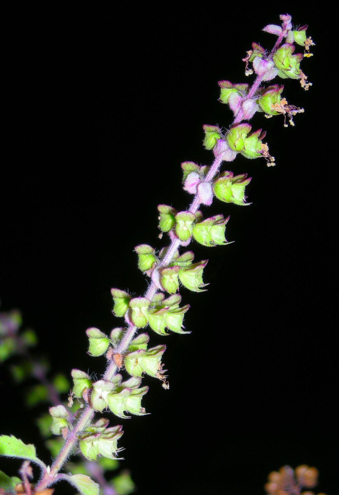 Ocimum tenuiflorum, Holy Basil flowers